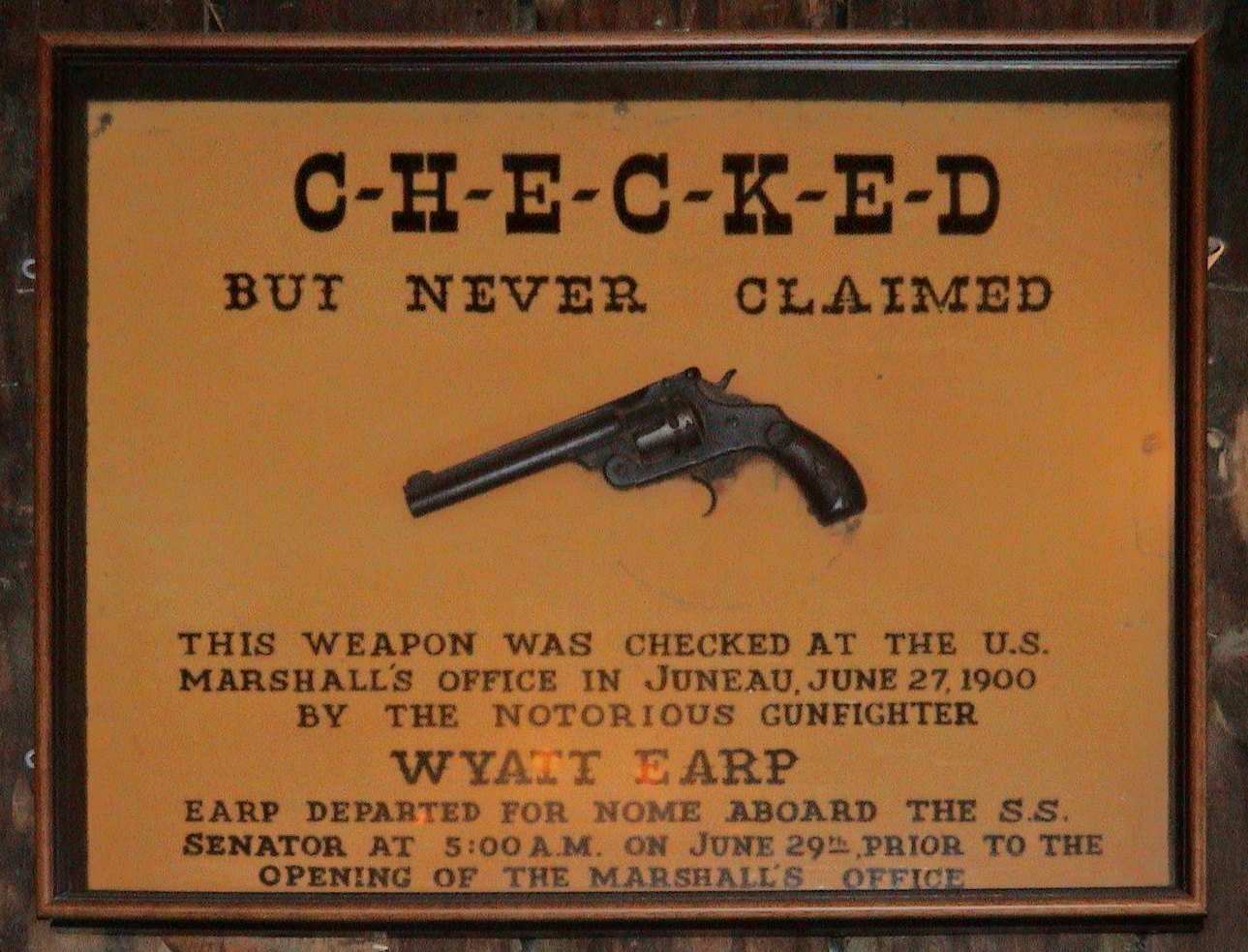 This is a picture of a pistol left in Juneau, Alaska by Wyatt Earp, who was on his way to Nome, Alaska. It is on display at the Red Dog Saloon in Juneau. I (Eric V. Blanchard) took this photo in August 2003. I permanently relinquish all rights to the work. Evb-wiki 17:51, 22 December 2006 (UTC)